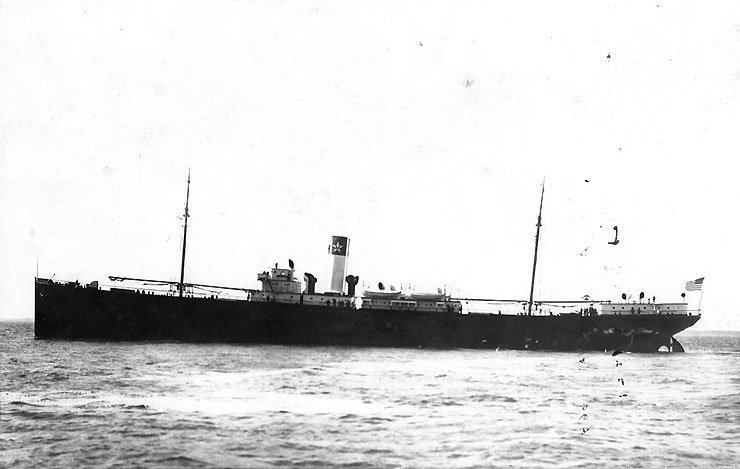 S.S. El Occidente (American Freighter, 1910) Photographed prior to her World War I era Naval service. This steamship served as USS El Occidente (ID # 3307) in 1918-1919. U.S. Naval Historical Center Photograph.